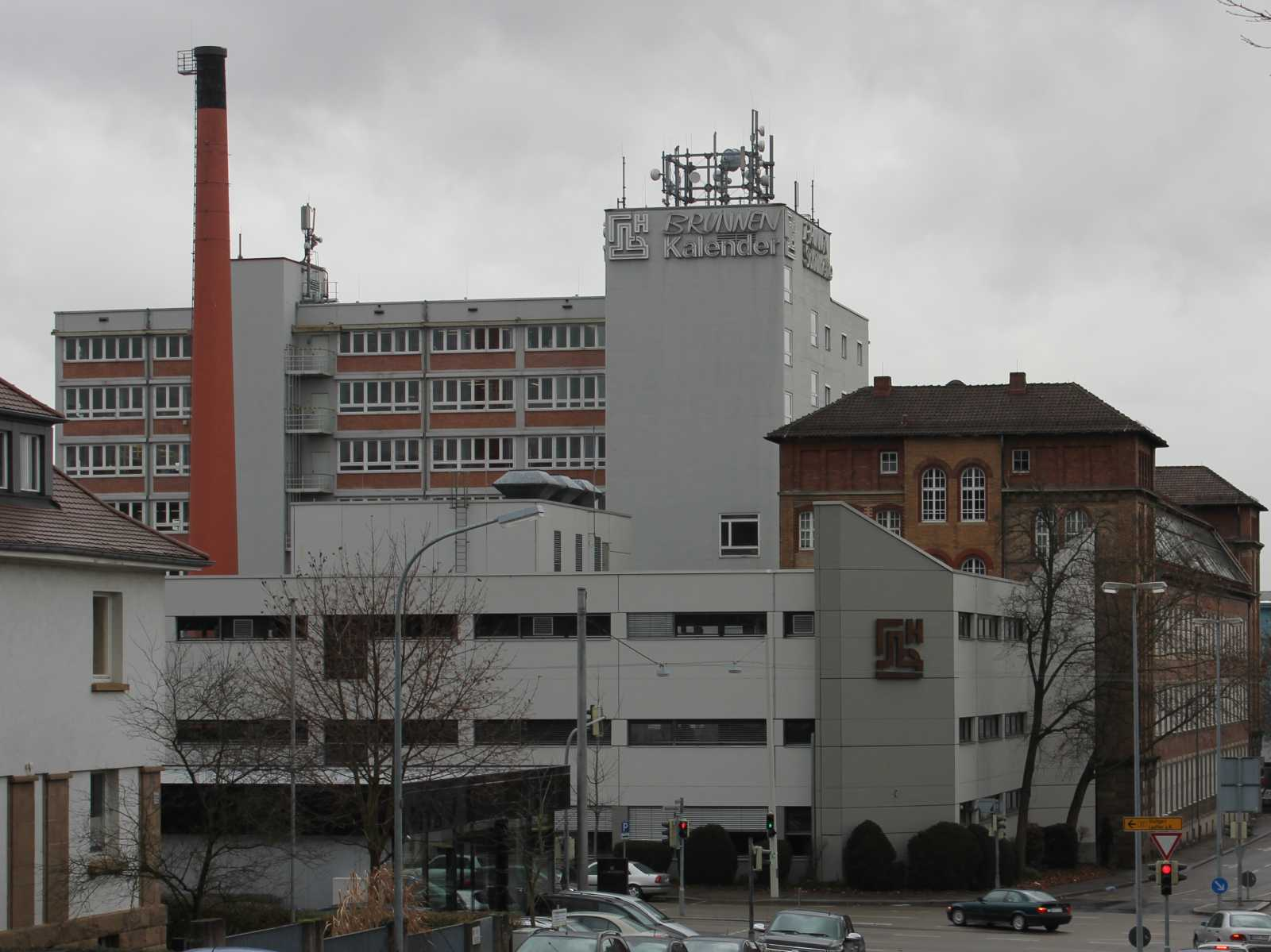 Plant Baier und Schneider in Heilbronn